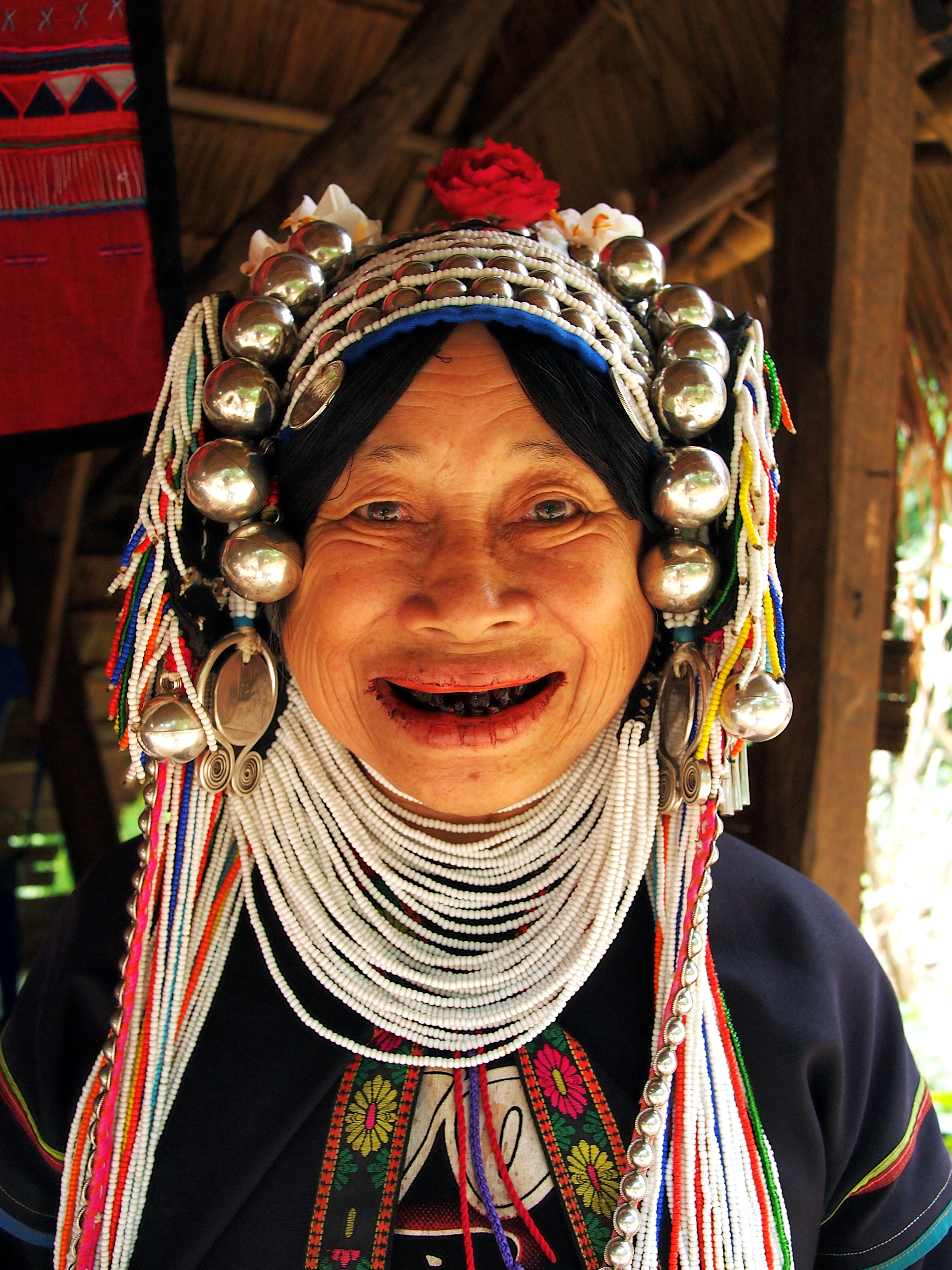 An old lady from Akha tribe that practice teeth blackening